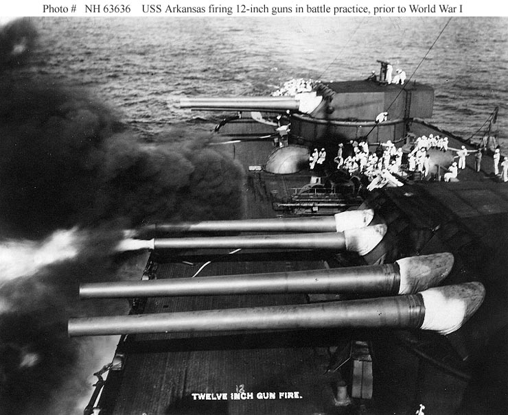 USS Arkansas firing her 12"/50 guns in battle practice prior to World War I. U.S. Naval Historical Center Photograph.